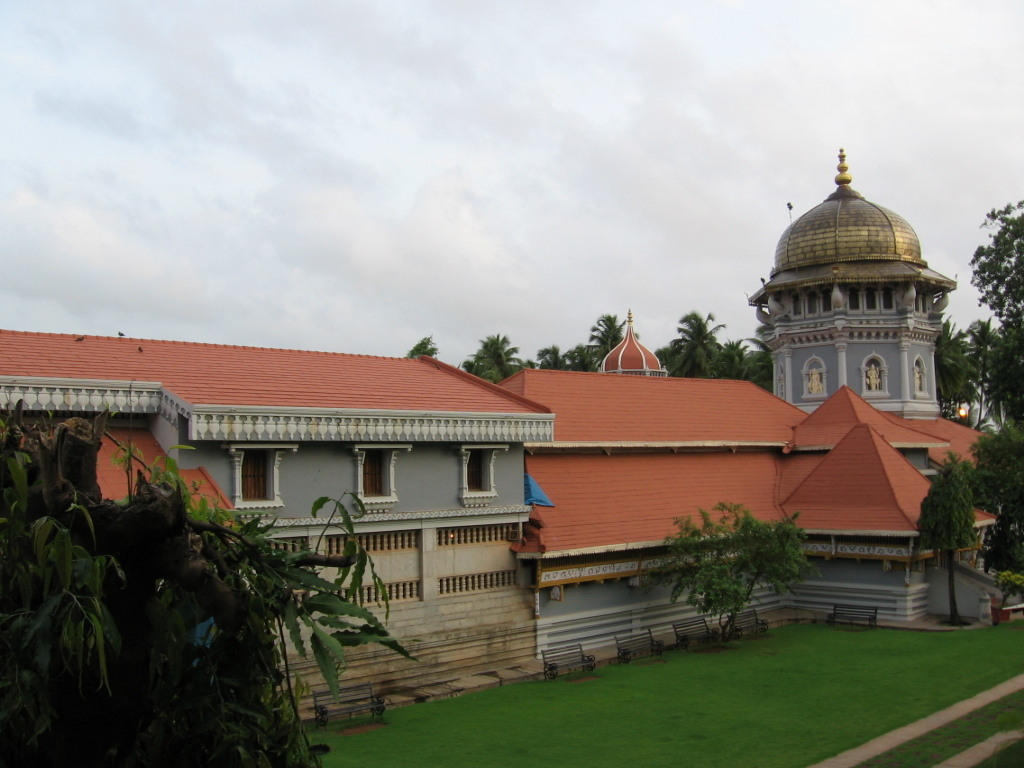 Created by Devayani Tirthali. Photo taken in July 2006 in Mahalasa Temple, Mhardol, Goa, India.